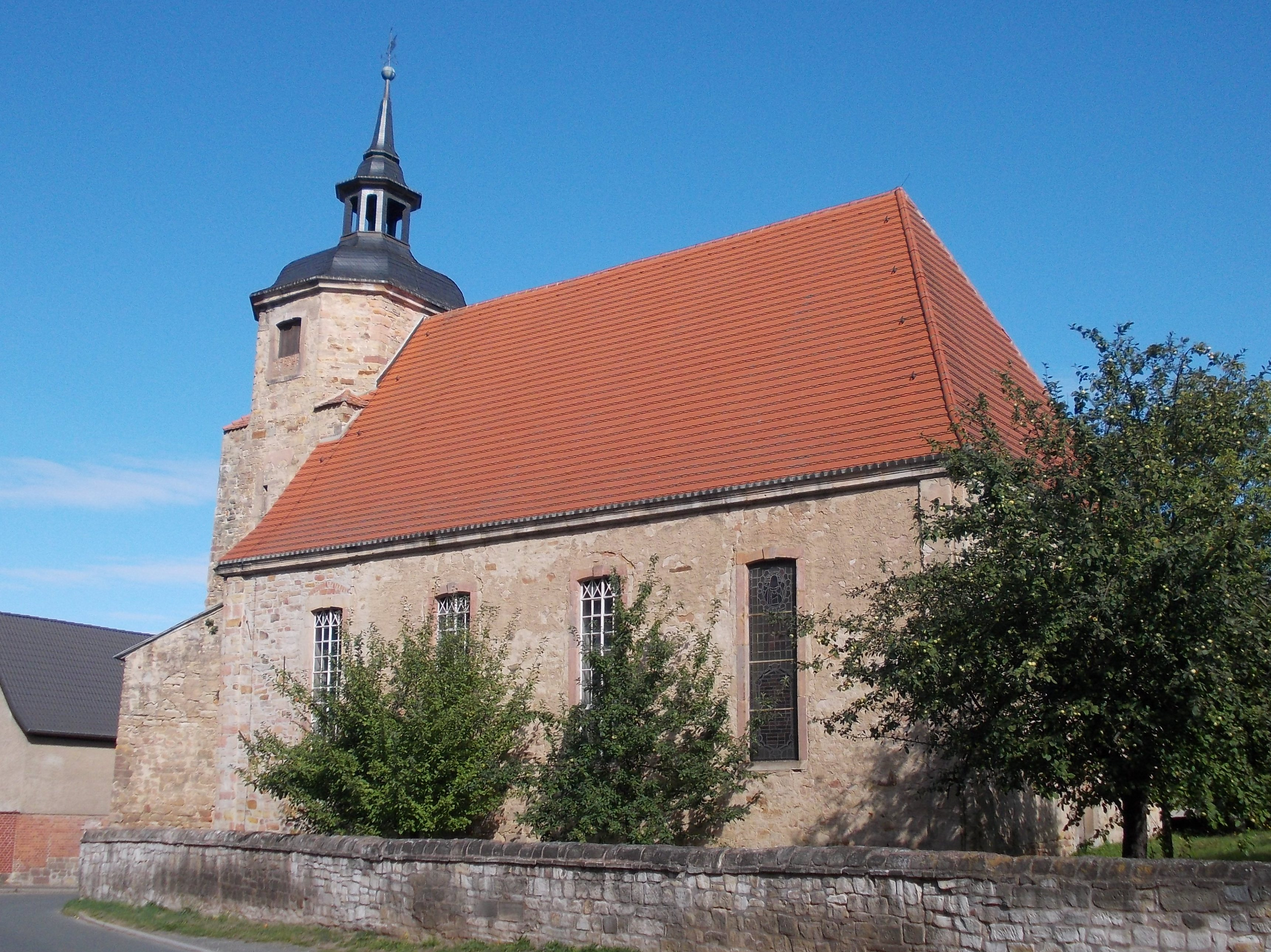 Saint Mary's Church in Leissling (Weissenfels, district: Burgenlandkreis, Saxony-Anhalt)